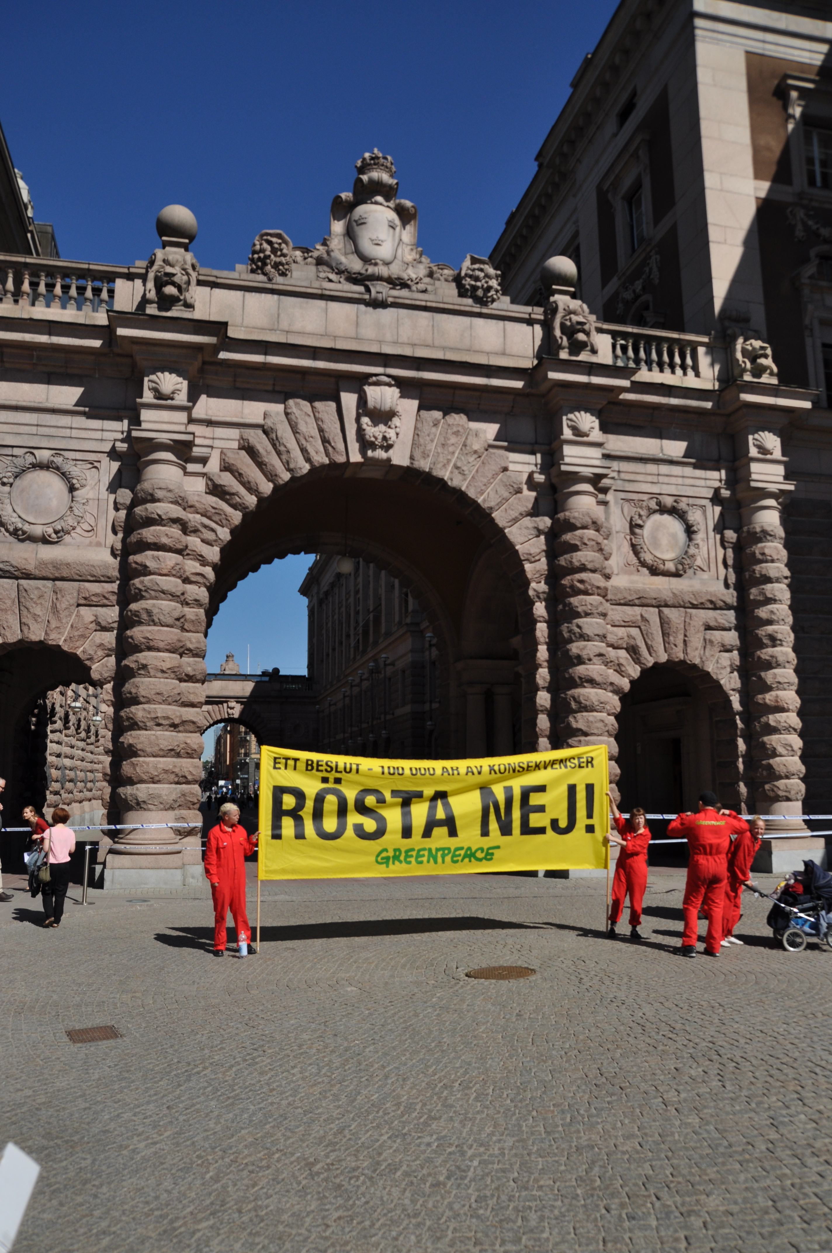 Greenpeace protests against the rescission of the prohibition to build new nuclear reactors in Sweden. At the same time, the Swedish Riksdag is making the decision.